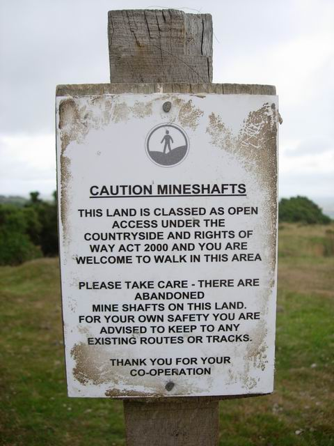 A sign headlined Caution Mineshafts and reading "This land is classified as open access under the Countryside and Rights of Way Act 2000 and you are welcome to walk in this area. Please take care —there are abandoned mine shafts on this land."